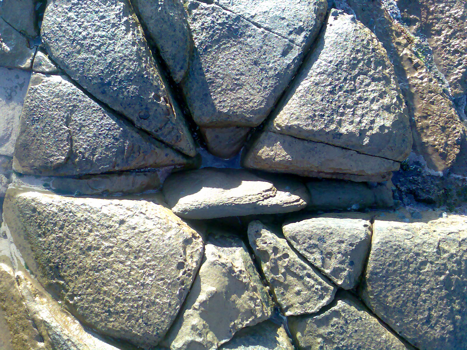 Cracks in rock at Sunrise-on-Sea beach, Eastern Cape, South Africa